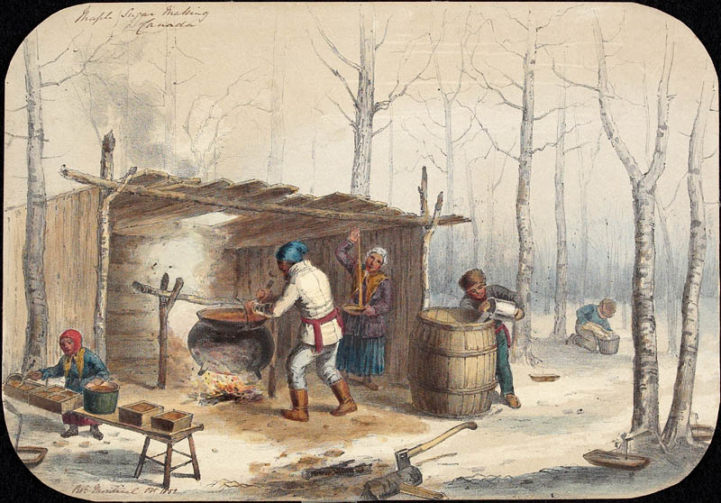 Sugar Making in Montreal, October 1852. By Cornelius Krieghoff (1815-1872). Library and Archives Canada, Acc. No. R9266-551 Peter Winkworth Collection of Canadiana.